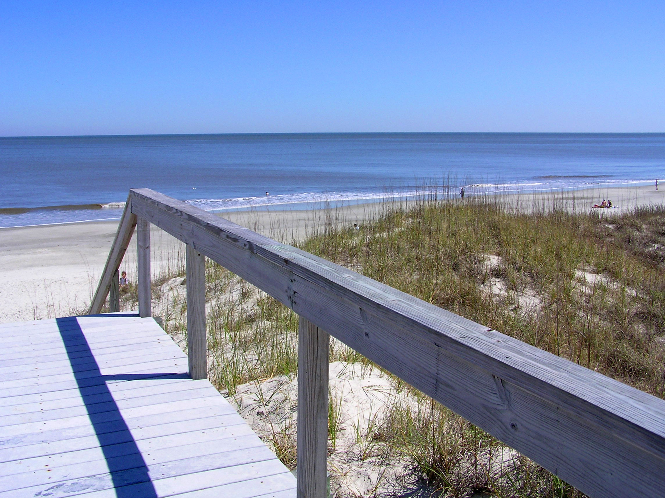 The beach and boardwalk on Jekyll Island, a barrier island off the coast of Brunswick, Georgia.